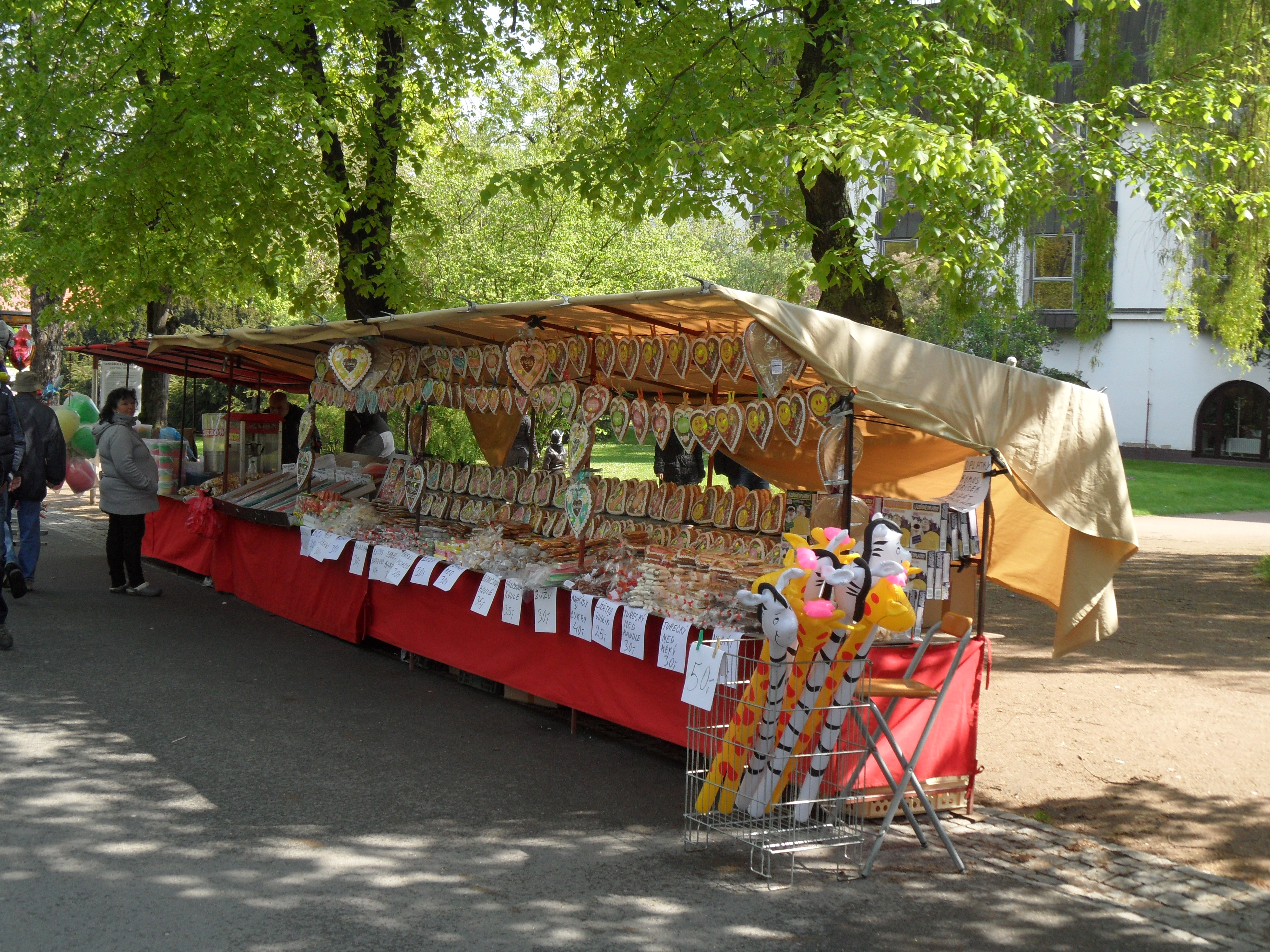 18th Meeting of Italian Car in Poděbrady; Nymburk District, the Czech Republic.Stands.